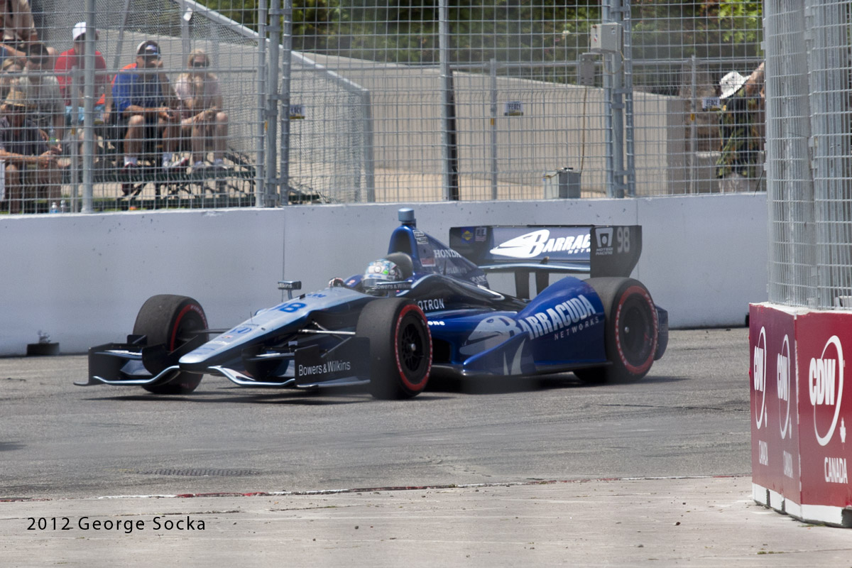 Canadian Alex Tagliani drove the Barracuda car to a tenth place finish at the Toronto Honda Indy. Thanks to CDW and Barracuda, my hosts at the Indy, with pit lane grand stand seats. The grand stands are nice, but the view of the cars was much better at turn 9 where this photo was taken